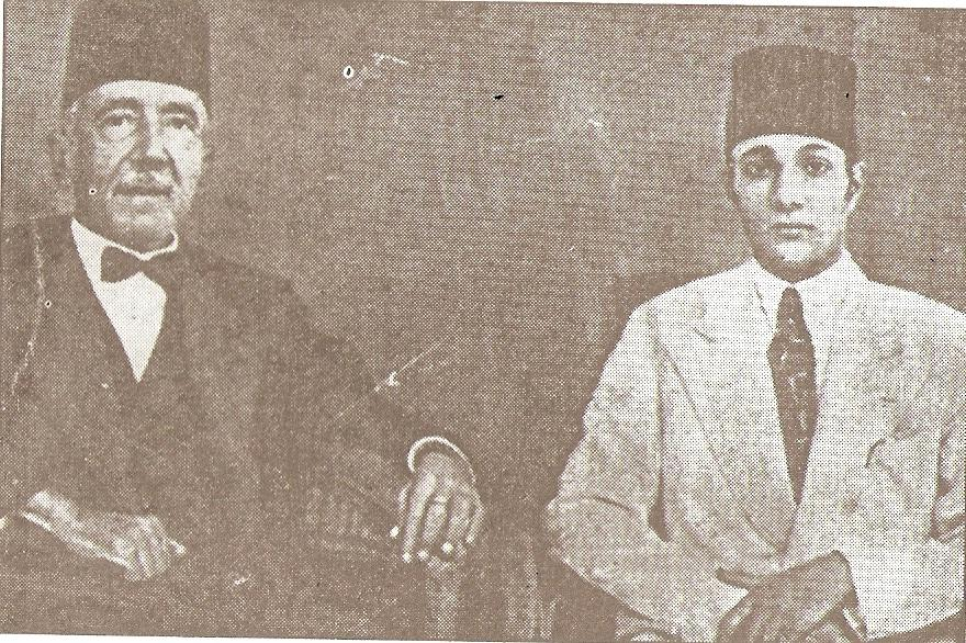 Egyptian poet Ahmed Shawqi (left) & Egyptian Singer-Composer Mohammed Abdel Wahab.